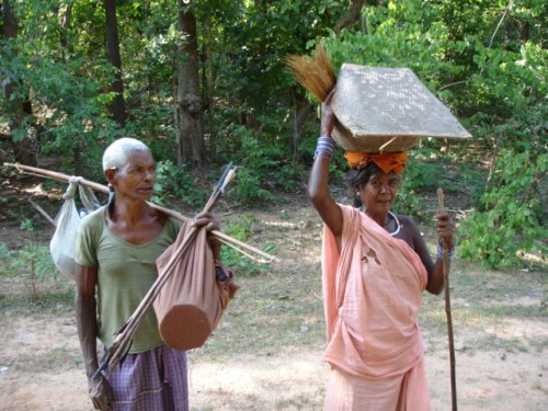 Natives of Kamar Tribe